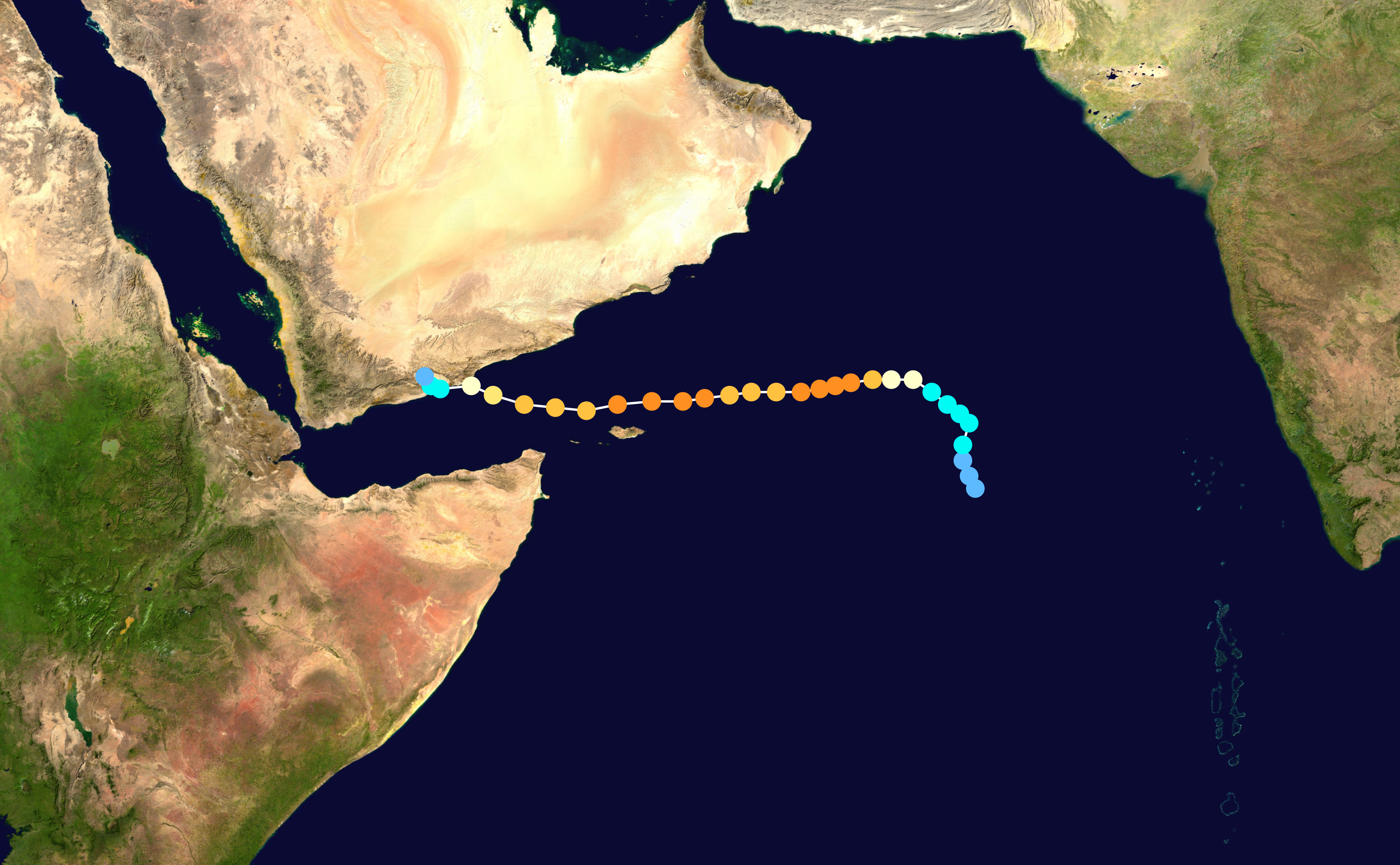 Track map of Extremely Severe Cyclonic Storm Chapala of the 2015 North Indian Ocean cyclone season. The points show the location of the storm at 6-hour intervals. The colour represents the storm's maximum sustained wind speeds as classified in the Saffir–Simpson scale (see below), and the shape of the data points represent the nature of the storm, according to the legend below. Saffir–Simpson scale Tropical depression≤38 mph≤62 km/h Category 3111–129 mph178–208 km/h Tropical storm39–73 mph63–118 km/h Category 4130–156 mph209–251 km/h Category 174–95 mph119–153 km/h Category 5≥157 mph≥252 km/h Category 296–110 mph154–177 km/h Unknown Storm type Tropical cyclone Subtropical cyclone Extratropical cyclone / Remnant low / Tropical disturbance / Monsoon depression